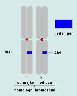 Allele